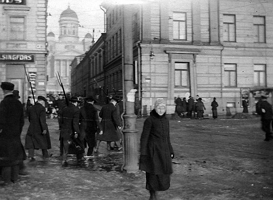 1918 Finnish Civil War: A Red Guard patrol in the street Pohjoisesplanadi by the Helsinki Market Square..